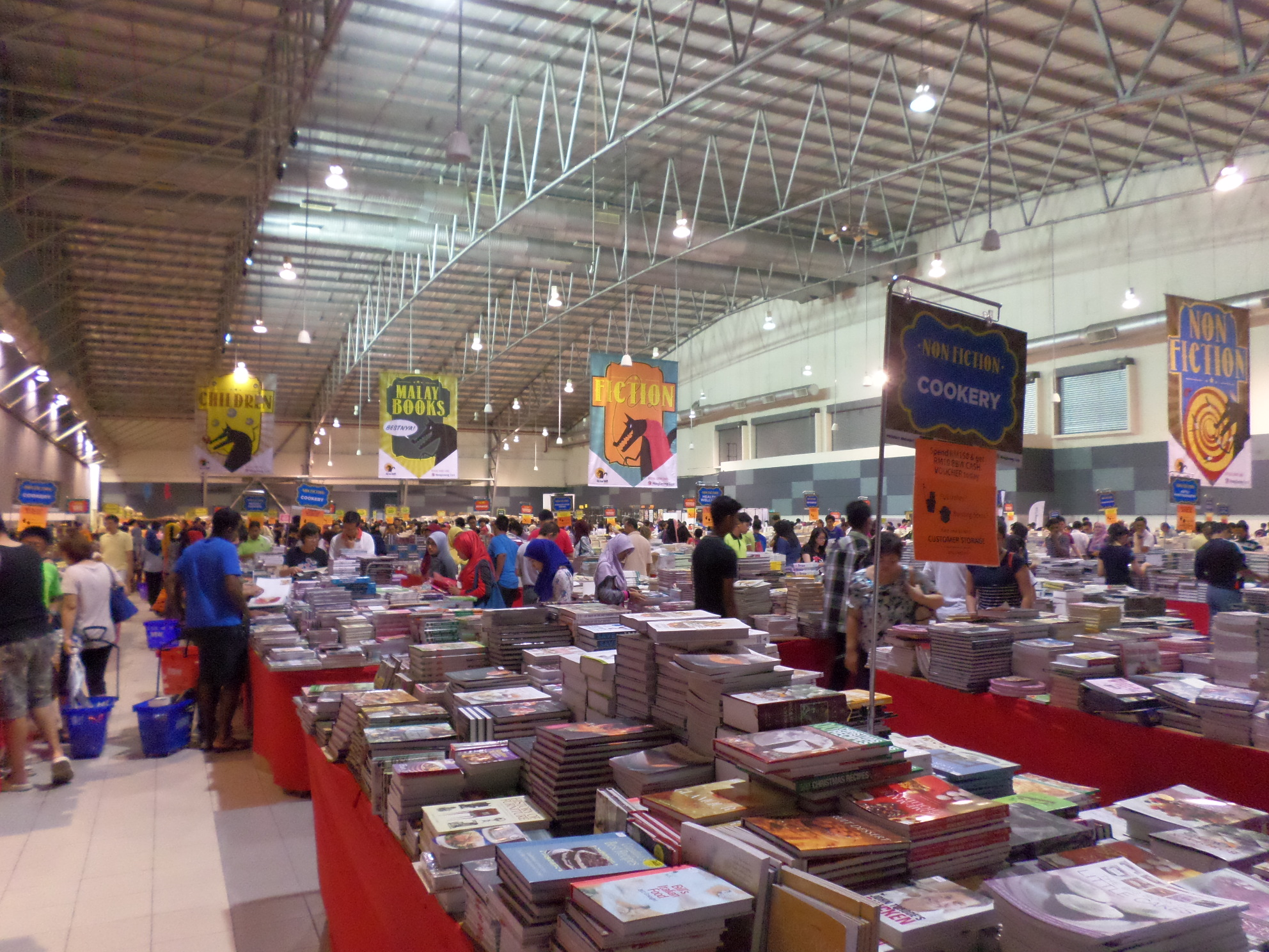 Malacca International Trade Centre, Ayer Keroh, Malacca, MalaysiaBahasa Melayu: Pusat Perdagangan Antarabangsa Melaka, Ayer Keroh, Melaka, Malaysia